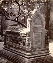 Omar bin Ahmad Al Kazaruni's Tomb in the Jami Masjid at Cambay in Gujarat